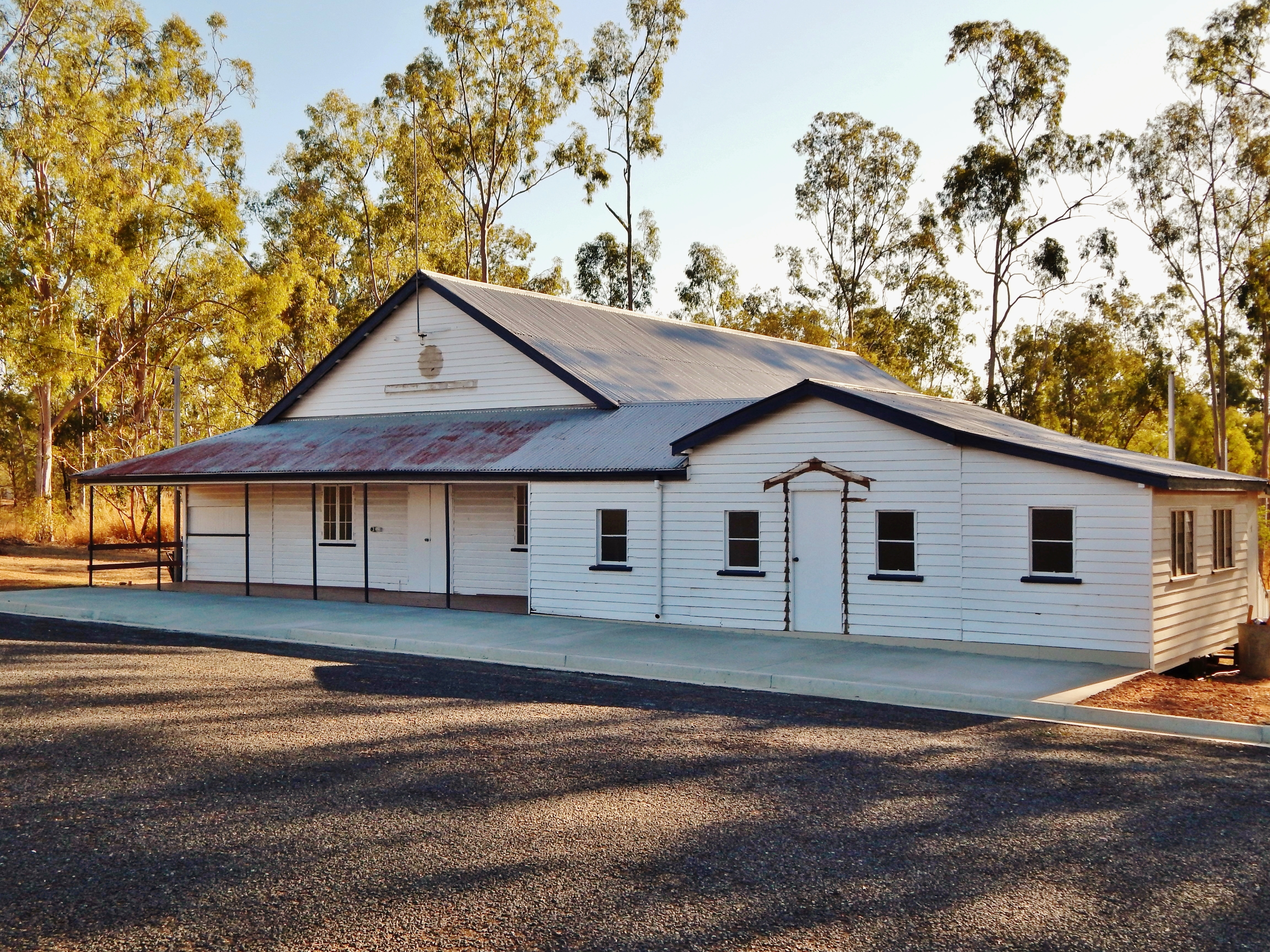 The community hall in Duaringa, Queensland. It was previously the QCWA Hall, but is now owned by the Woorabinda Aboriginal Shire Council who, according to online articles, plan to develop it into a community arts and tourism hub.